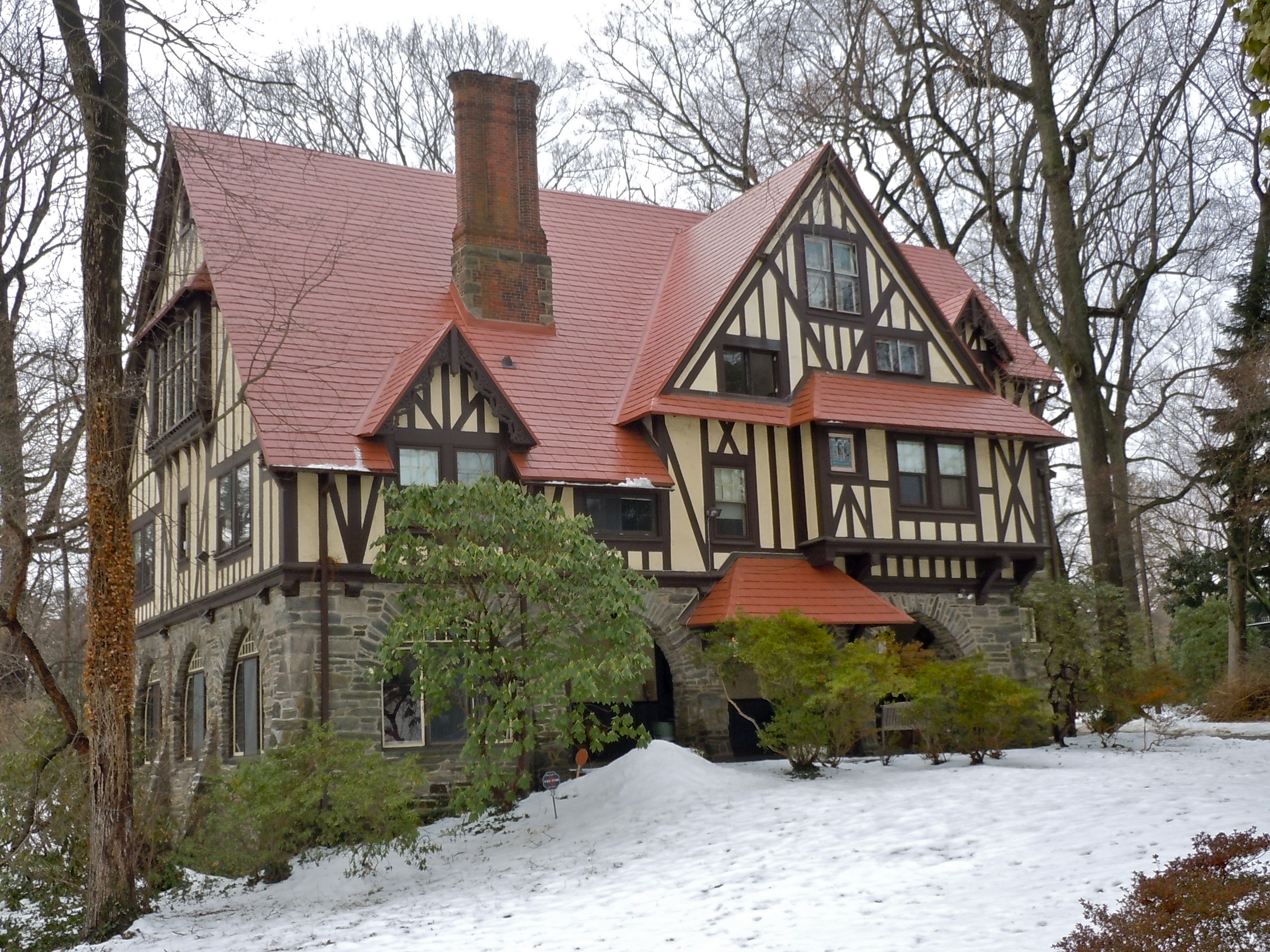 Kelty, a house designed by and lived in by well known architect William Lightfoot (Will) Price. On Berwick Road, Merion, PA, near (former Episcopal Academy, now part of St. Joseph's University.) Owner says he bought it about 7 years ago (2004?) from the widow of Chaim Potok (d. 2002), who moved there in 1973. Account confirmed at A house that Price lived in earlier at 6334 Sherwood Overbrook, Philadelphia is a few blocks west. Kelty coords are 39.9935,-75.2444